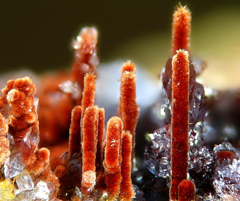 Carminite Locality: Alto das Quelhas do Gestoso Mines, Gestoso, Manhouce, São Pedro do Sul, Viseu District, Portugal Picture width 8 mm. Collection and photograph Christian Rewitzer This Photo was Photo of the Day - 30th Oct 2008